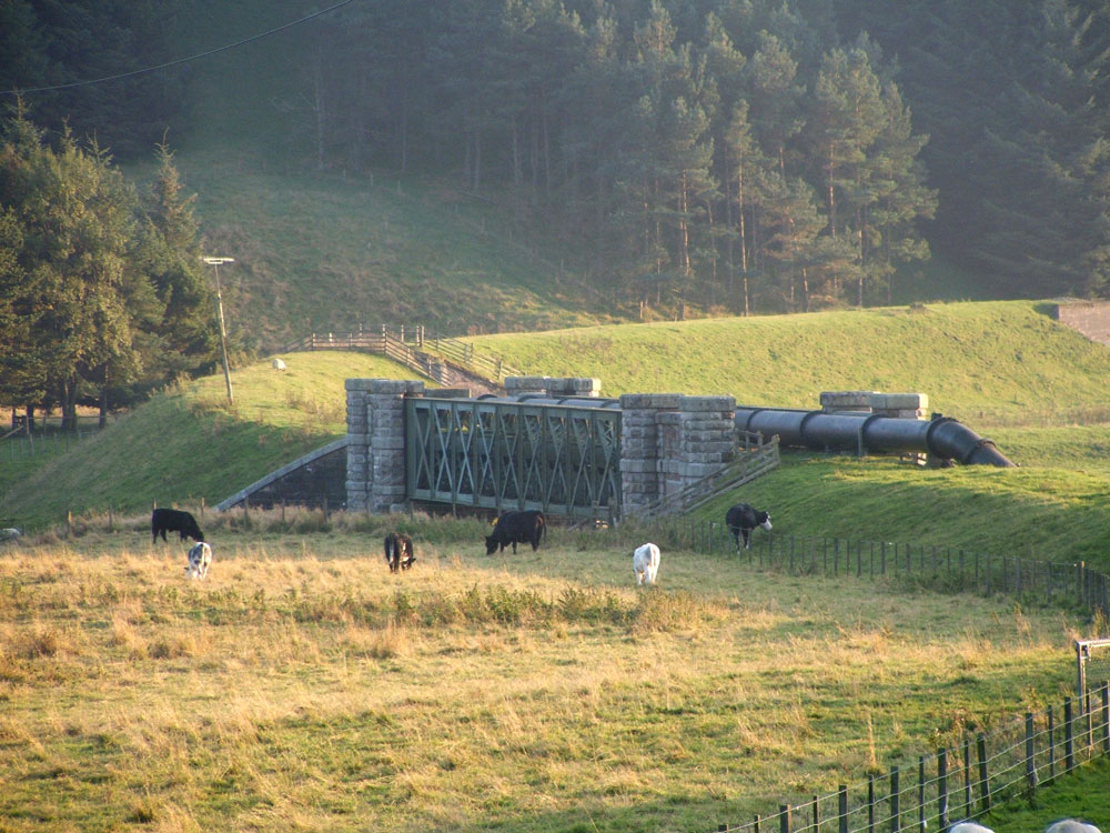 Bridge over River Tweed, near Tweedsmuir.